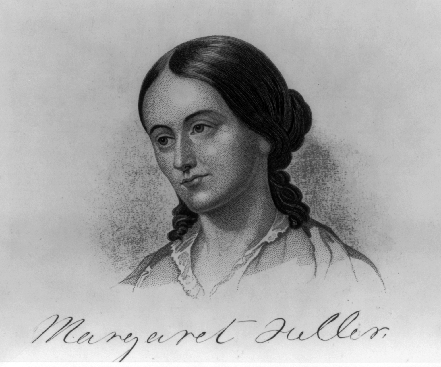 Margaret Fuller, 1810-1850 (Marchioness Ossoli), head-and-shoulders portrait in engraving, facing left